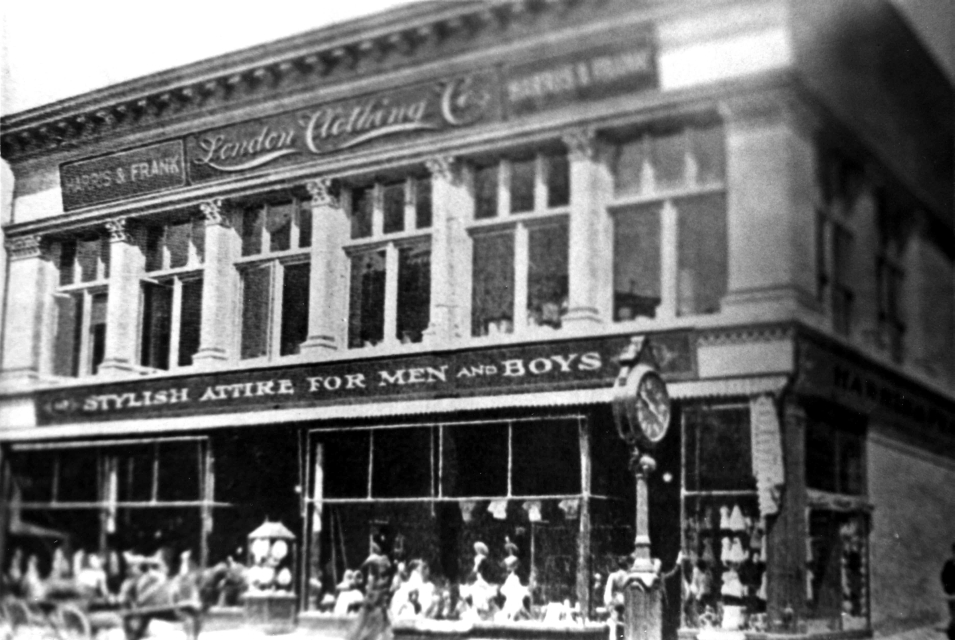 Leopold Harris & Frank's London Clothing Co., Los Angeles, late 1800s